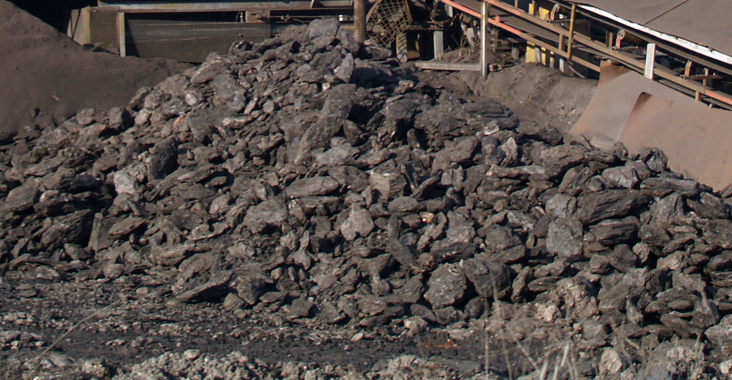 Brown coal from Chukurovo mine, Bulgaria